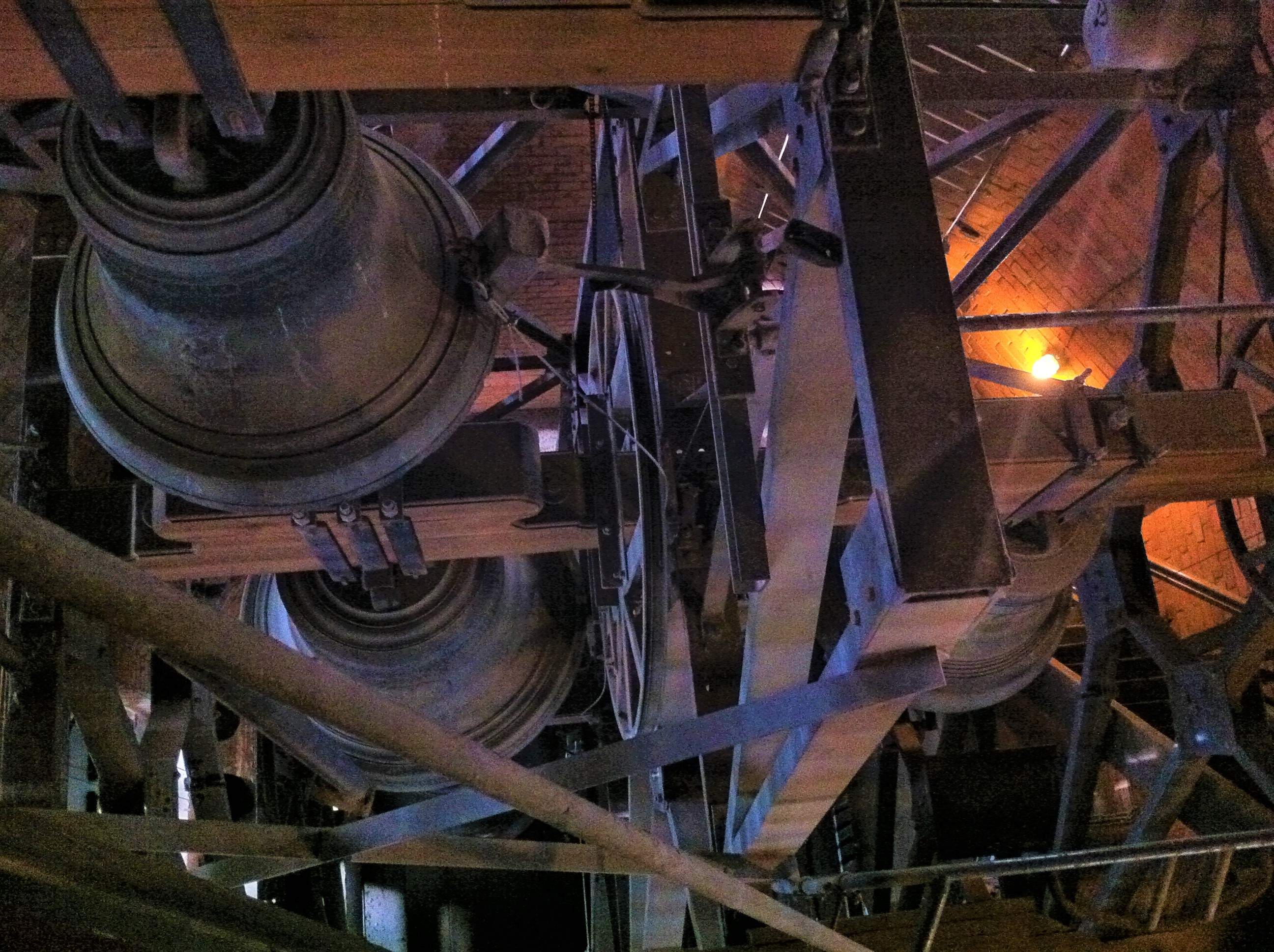 Bells in the church tower of the St. Marien church in Winsen (Luhe)